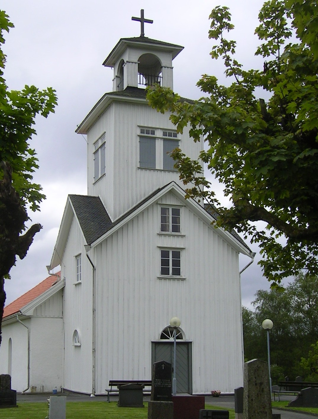 Church of Älekulla, Västergötland, Sweden